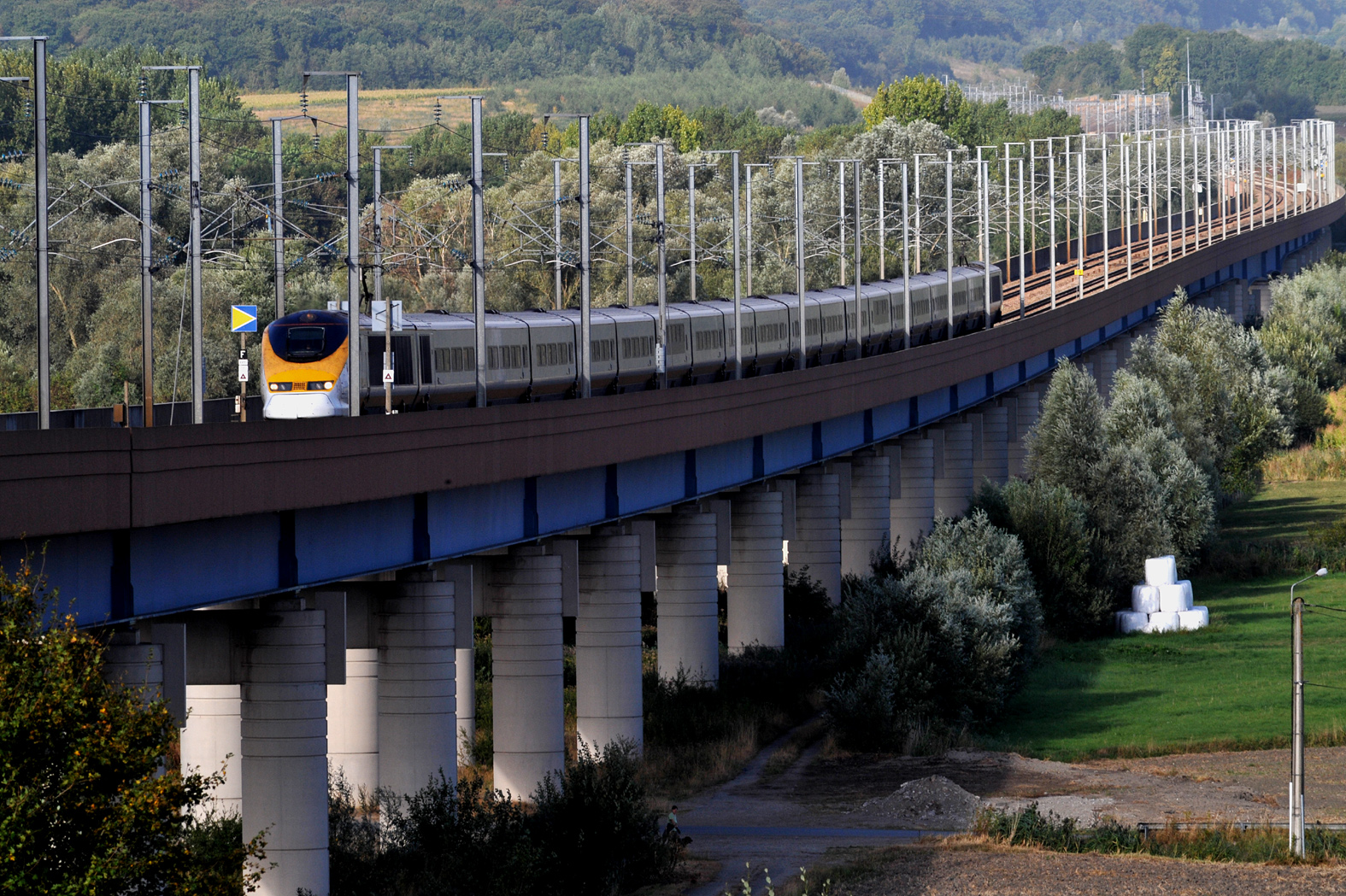 Eurostar on the Viaduc de la Haute-Colme, bridge of the LGV Nord north of Watten; Nord and Pas-de-Calais, France.